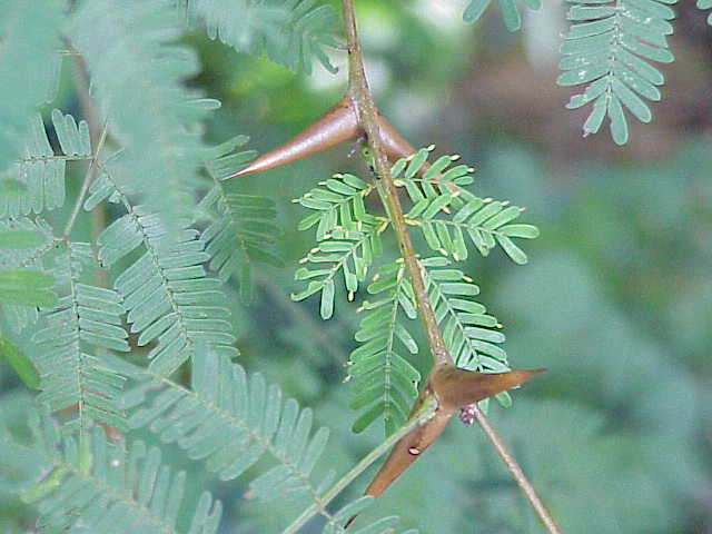 Species: Acacia collinsii Family: Fabaceae Image No. 5